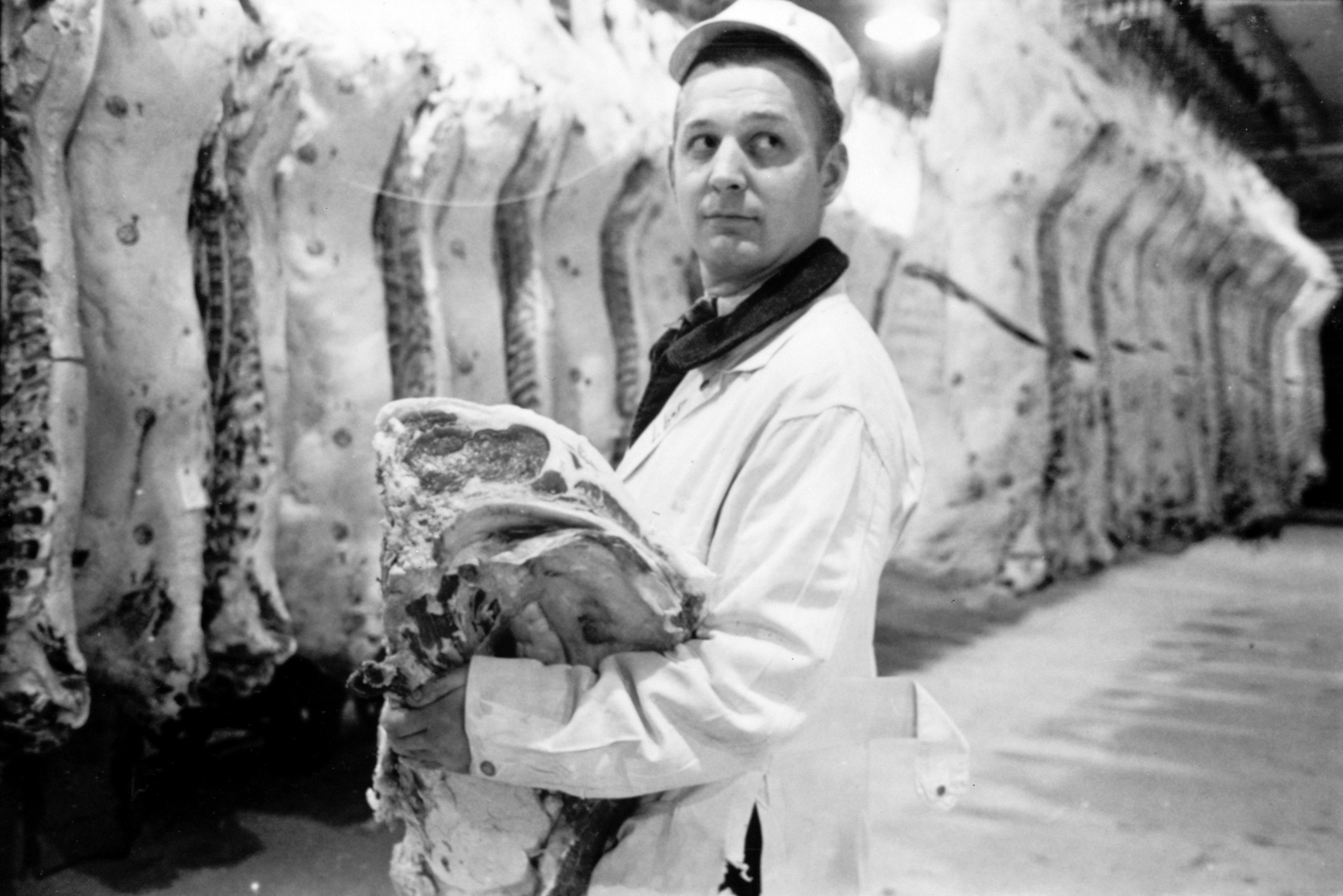 Butcher holding slab of beef in a meat locker. Image from Look photographic assignment with title: Chicago city of contrasts.